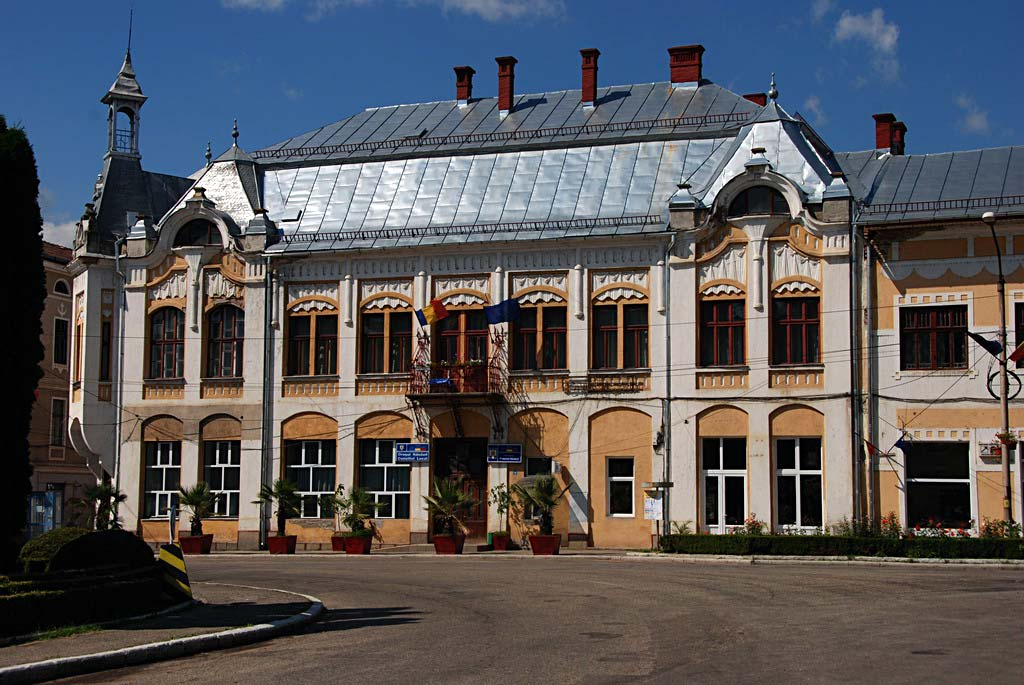 Năsăud - Town Hall and Town Concil